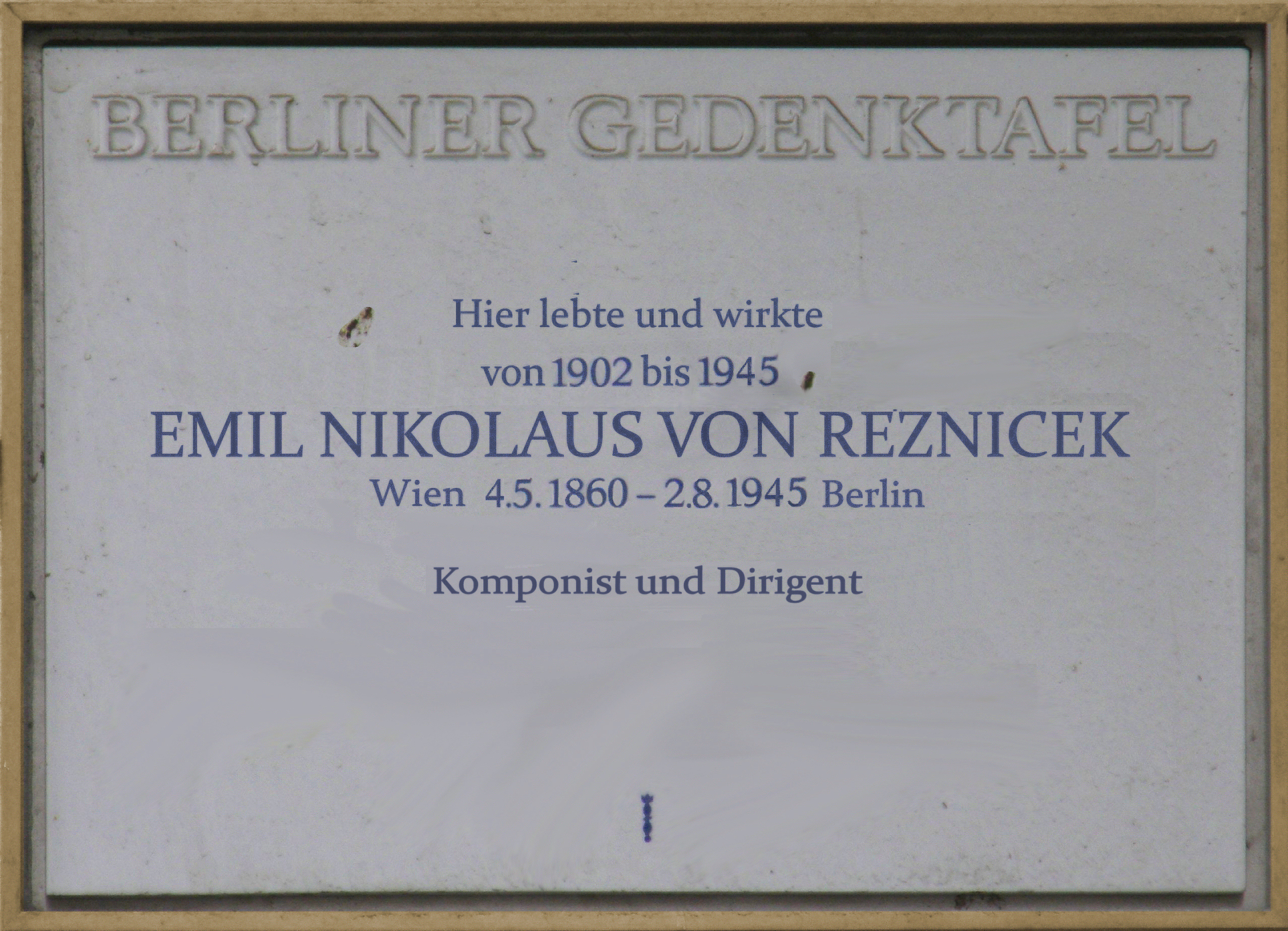 Berlin memorial plaque, Emil Nikolaus von Reznicek, Knesebeckstraße 32, Berlin-Charlottenburg, Germany